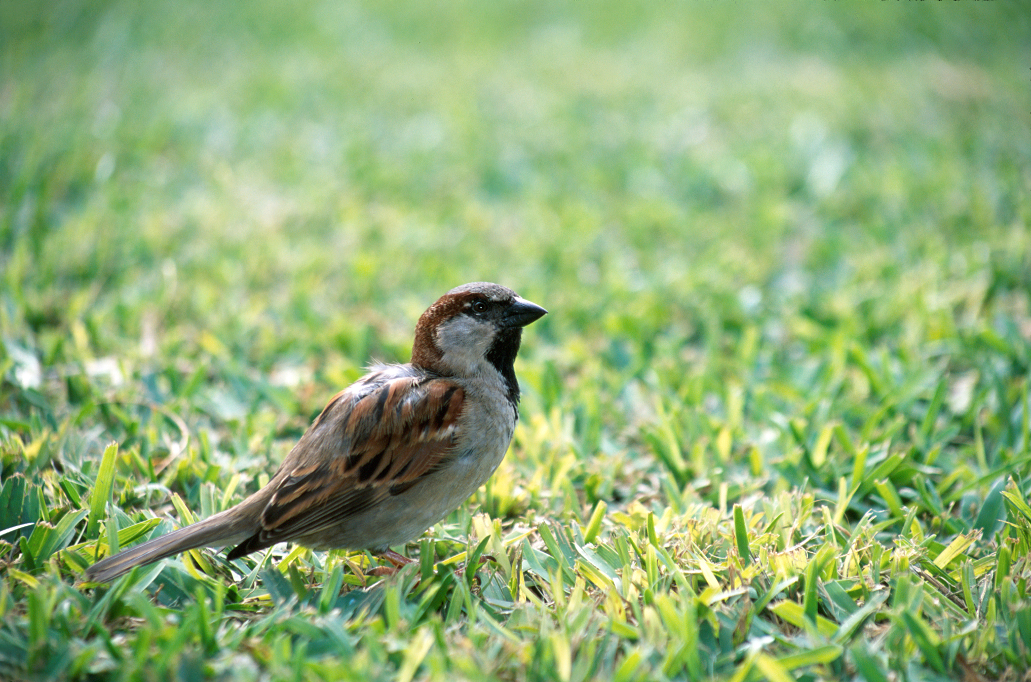 A male House Sparrow (Passer domesticus) in Maui, Hawaii